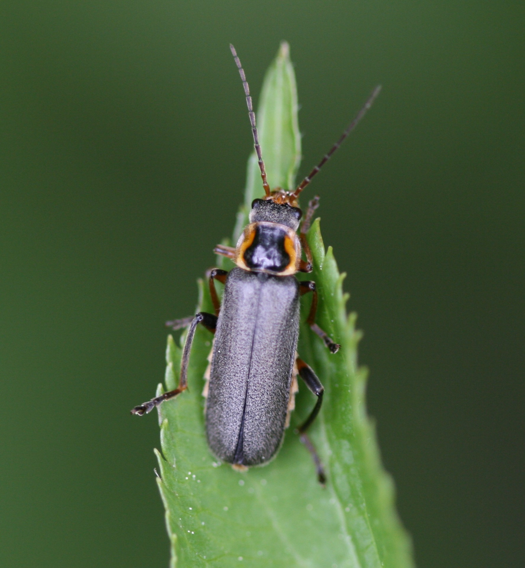 A Soldier Beetle